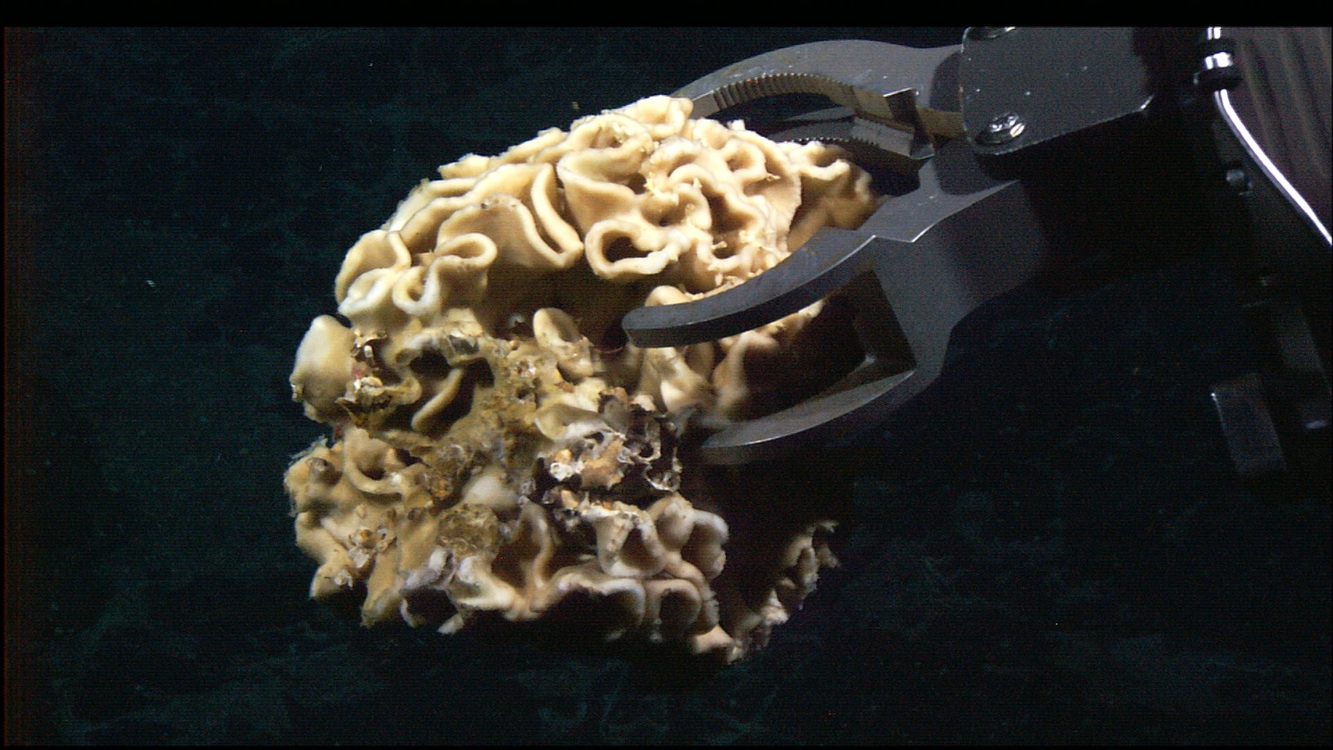 A large 20-cm wide Xenophyophore. Xenophyophores are single cell animals called protists. As benthic particulate feeders, xenophyophores normally sift through the sediments on the sea floor. and excrete a slimy substance; in locations with a dense population of xenophyophores, such as the bottom of trenches, their density may be as high as 2000 per 100 square meters. Atlantic Ocean, Mid-Atlantic Ridge.